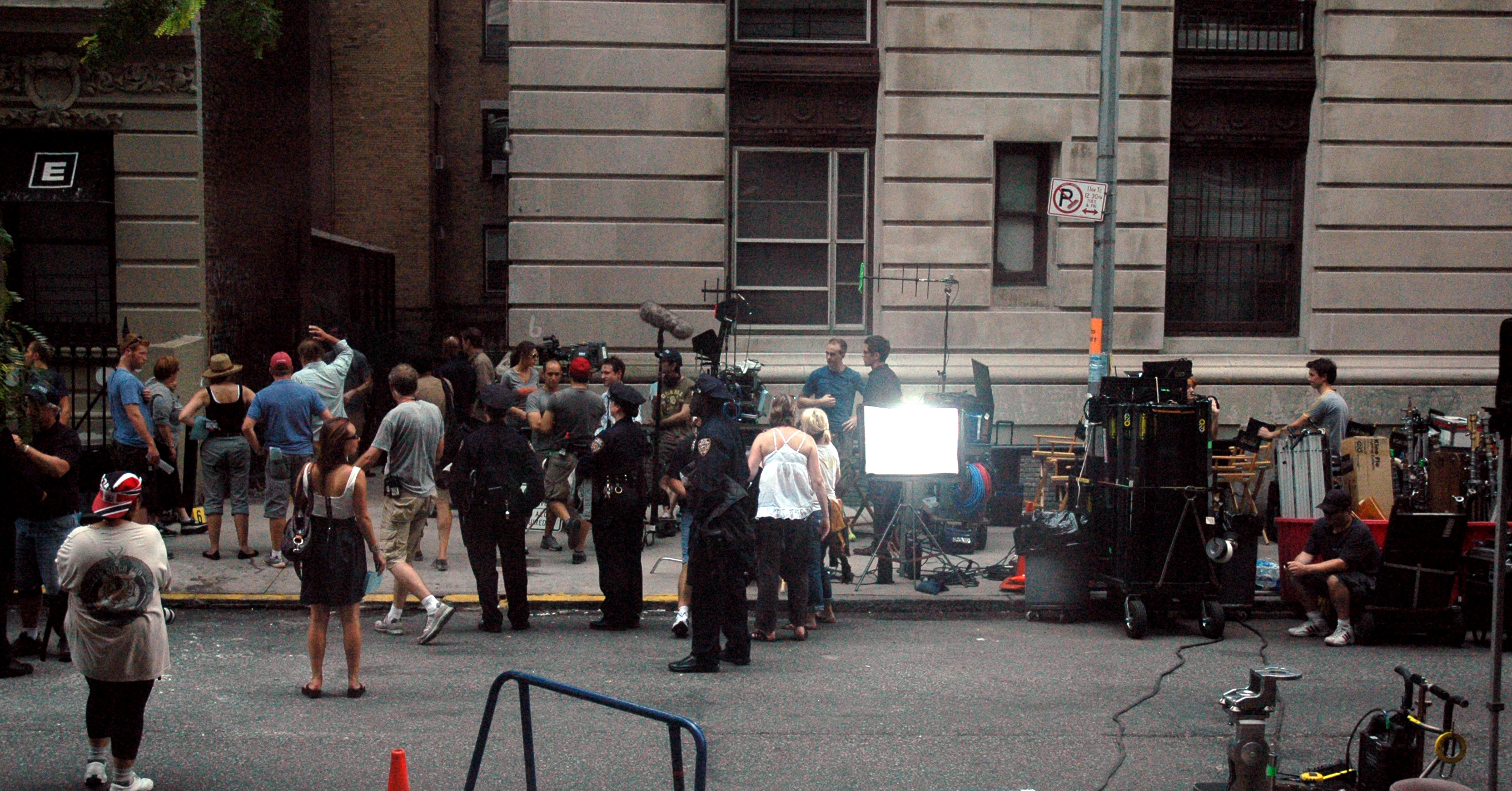 Law & Order: Special Victims Unit filming season 12 in New York on West 111th Street.